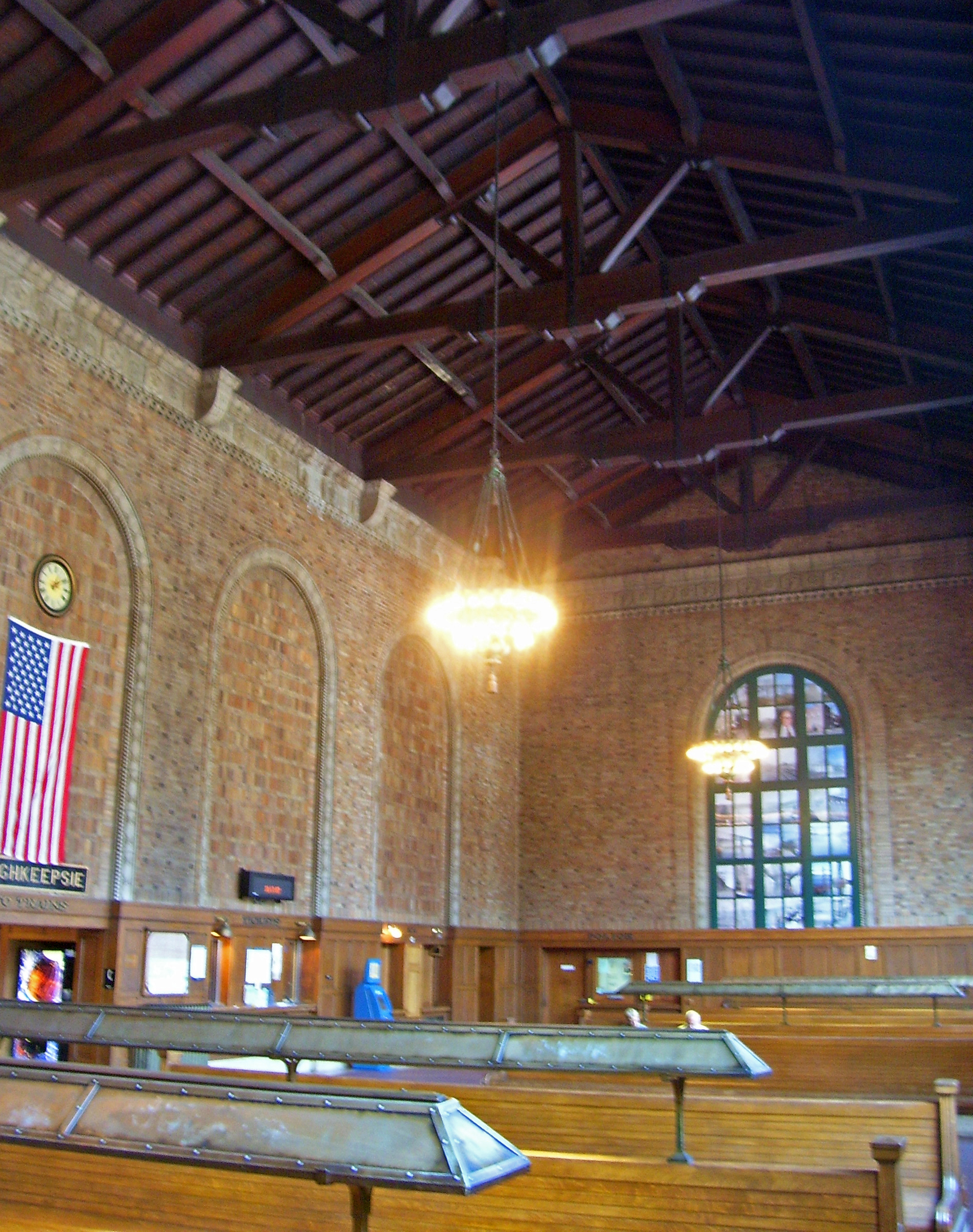 Interior waiting room of the Poughkeepsie, NY, USA, train station